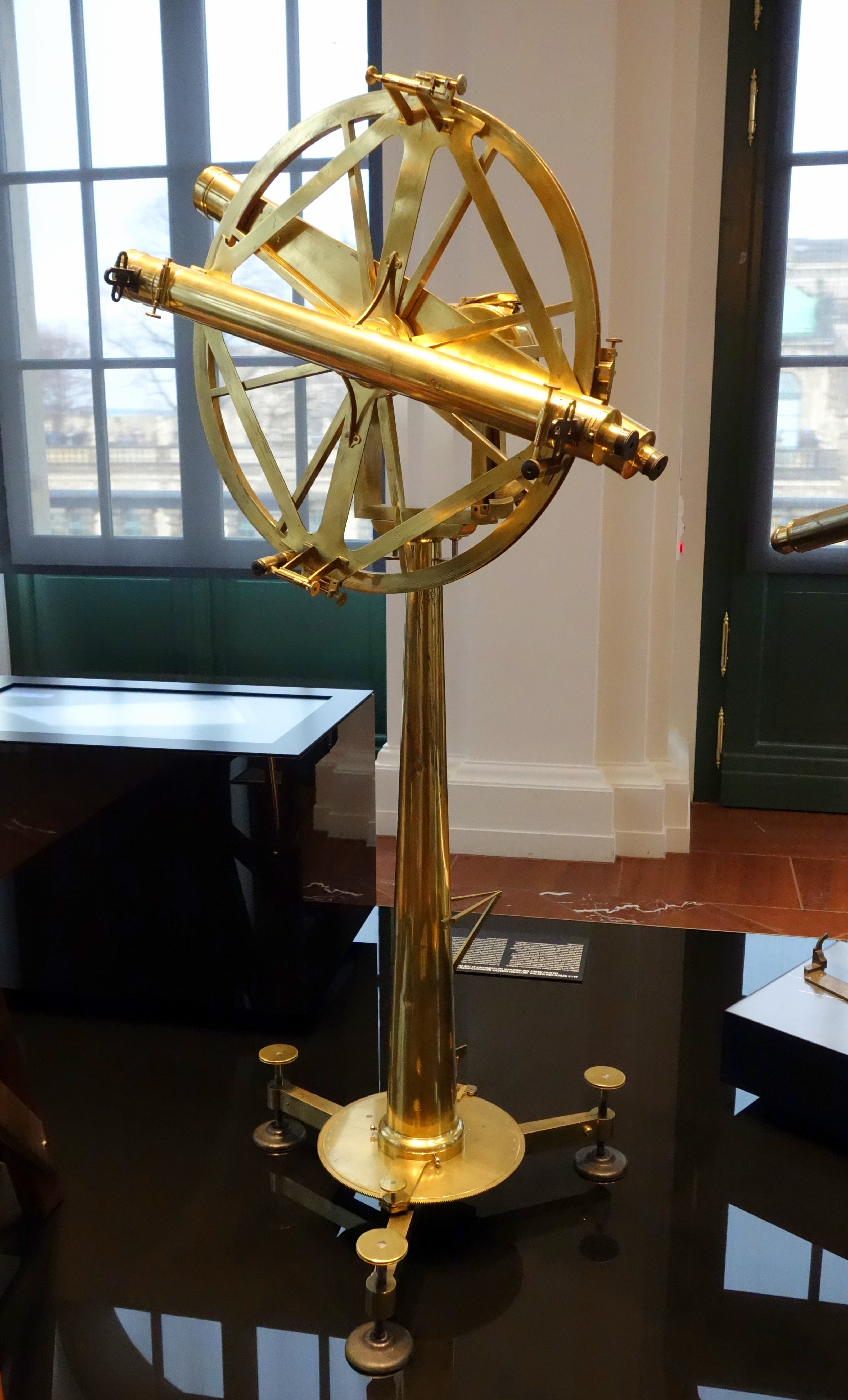 Exhibit in the Mathematisch-Physikalischer Salon (Zwinger), Dresden, Germany. This artwork is old enough so that it is in the public domain.